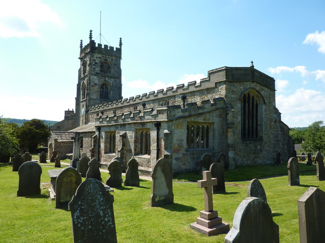 St Peter and St Paul's Church, Bolton-by-Bowland, near to Bolton-by-Bowland, Lancashire, Great Britain.